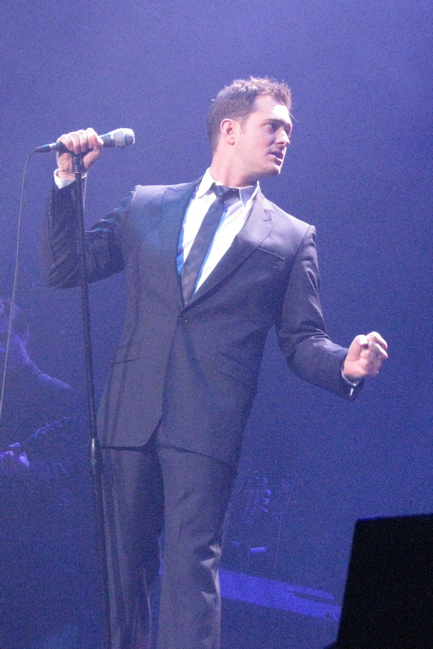 MB